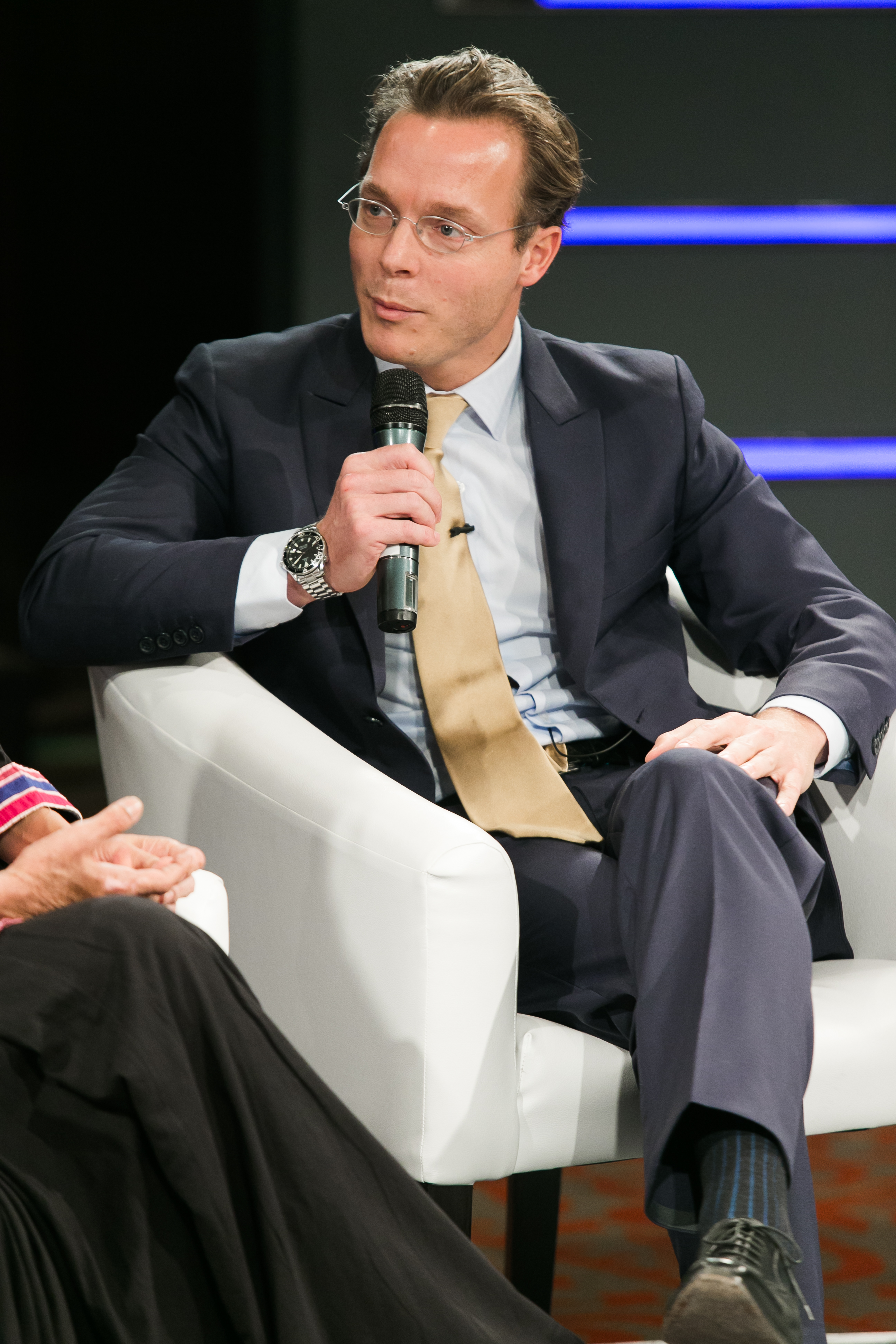 H.R.H. Prince Jaime de Bourbon Parme (identified by WEF bio), Special Envoy, Natural Resources, Ministry of Foreign Affairs, Netherlands; Young Global Leader at the World Economic Forum on India 2012. Copyright World Economic Forum / Photo by Benedikt von Loebell